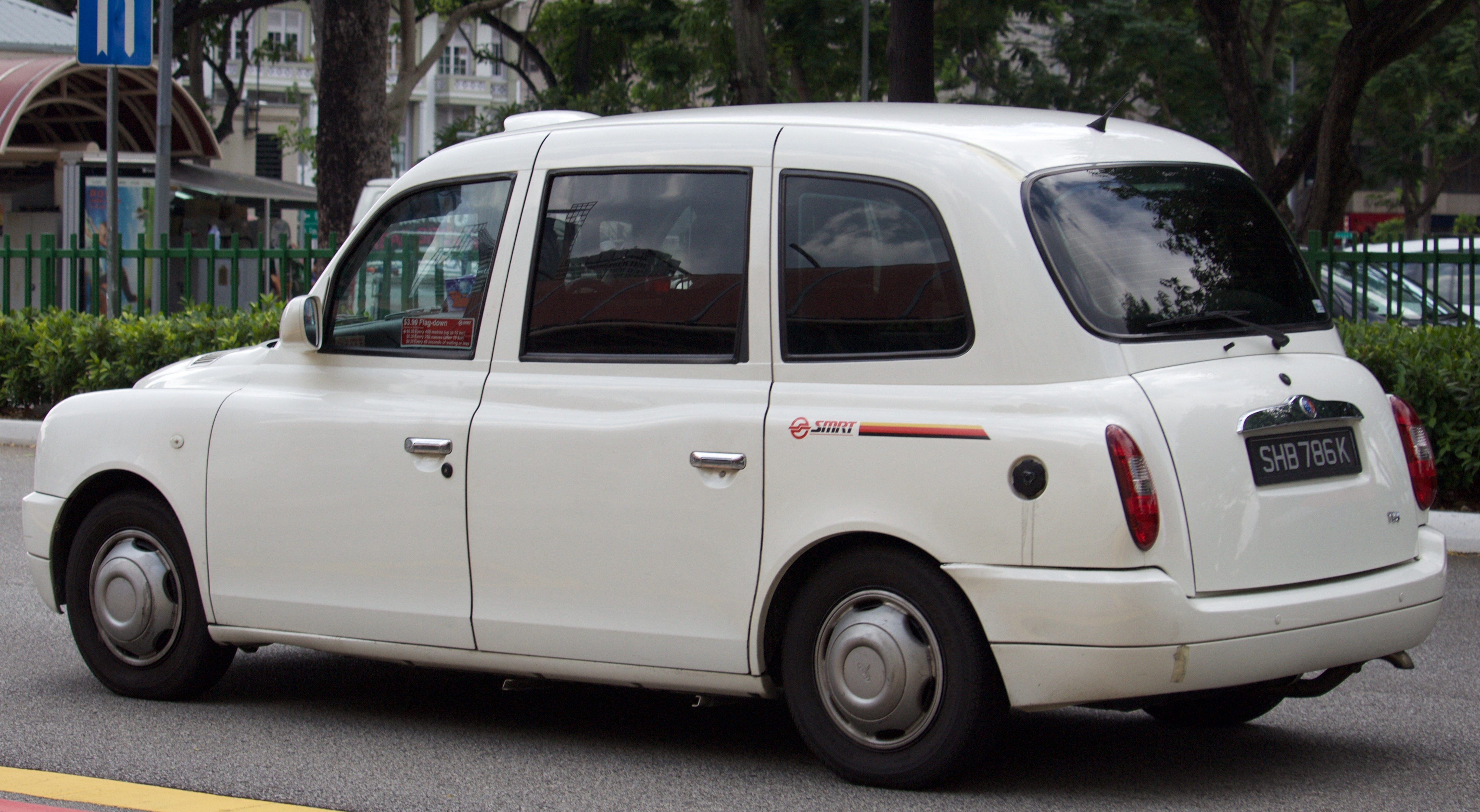 London Cab TX4 2.5 diesel, SMRT owned. Photographed in Singapore. Vehicle registration enquiry resultsJurisdictionSingaporeRegistrationSHB786KChassis codeLJU97C7BXDS000155Engine codeVM62C55804Year of manufacture2013